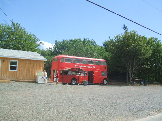 Englishtown Bus Cafe, Englishtown NS